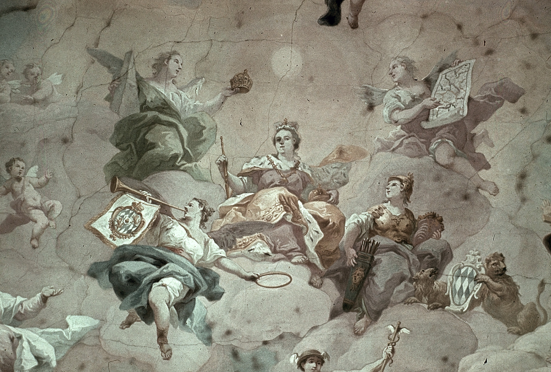 Fresco of the allegoric Bavaria, from the former cistercian monastery Fürstenzell, near Passau, Bavaria, Germany. The painting on the ceiling of the Fürstensaal was created in 1773 by Bartolomeo Altomonte. Photography by Bruno Roden, between 1943 and 1945